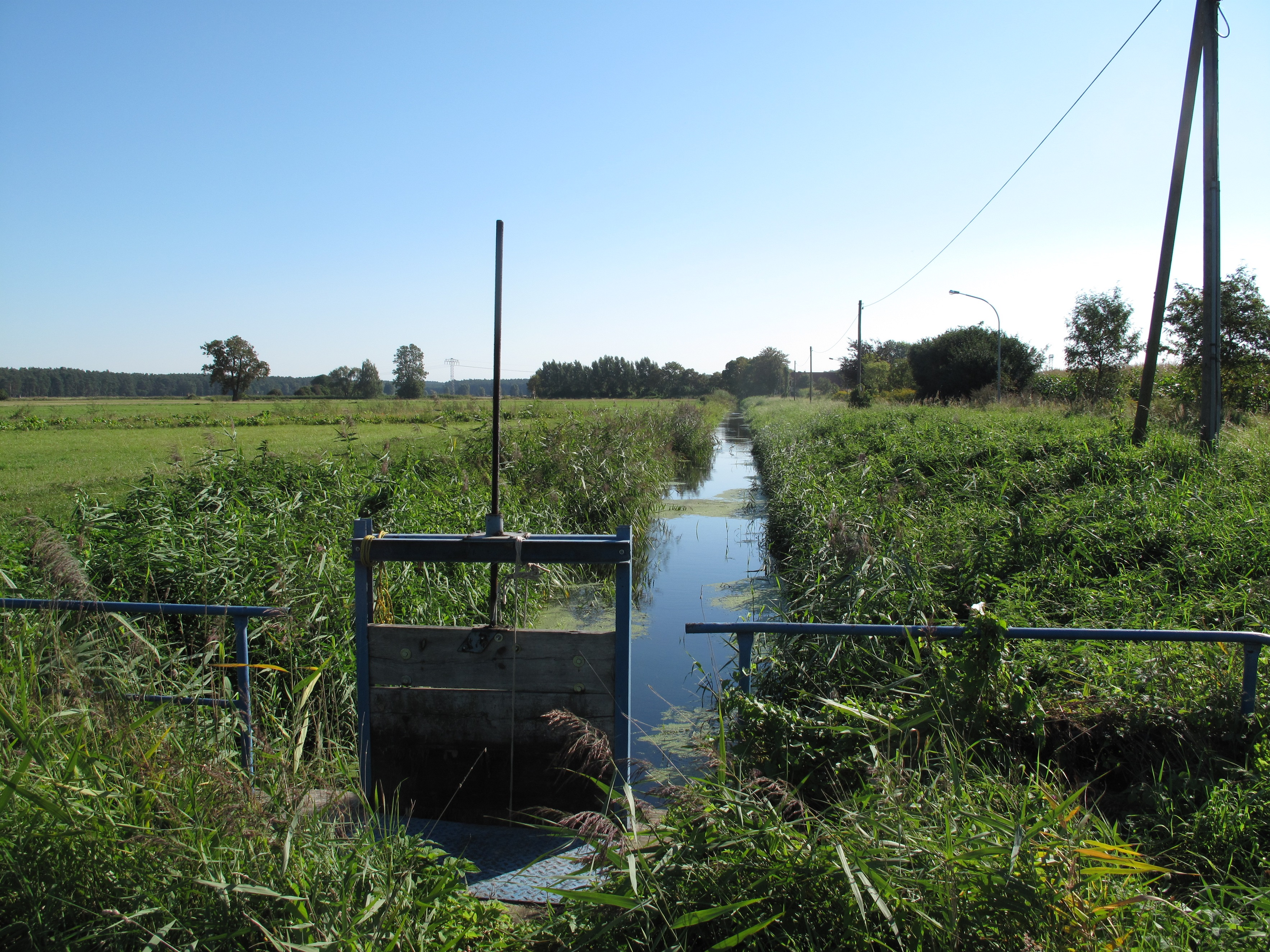 Rieploser Fließ in Rieplos. The 3,88 kilometres long stream connects the Lebbiner See with the Stahnsdorfer See (lakes). The village Rieplos is a part of the town Storkow, District Oder-Spree, Brandenburg, Germany. The village and the stream are situated in the Dahme-Heideseen Nature Park.